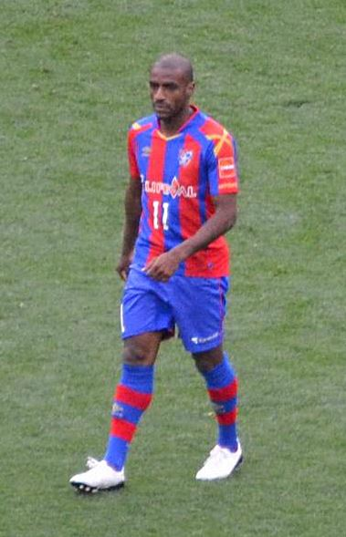 Muriqui during the Tamagawa Clasico - the match between FC Tokyo and Kawasaki Frontale - played at Ajinomoto Stadium 16th April 2016.